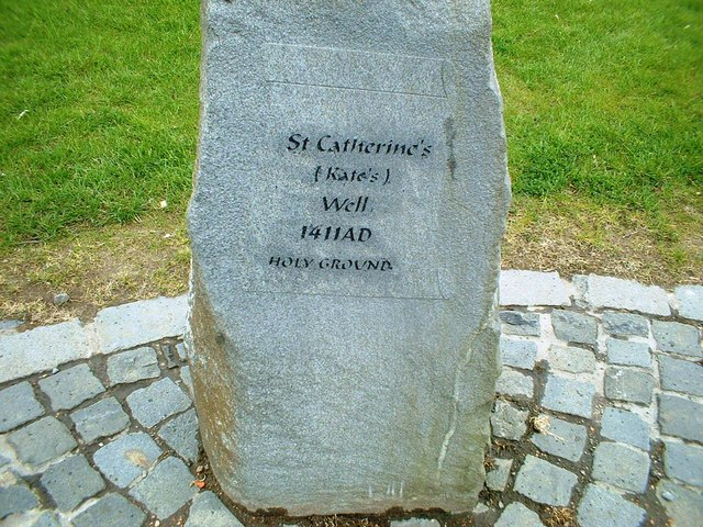 Kate's well Stone plinth erected when area around well was improved in recent years.